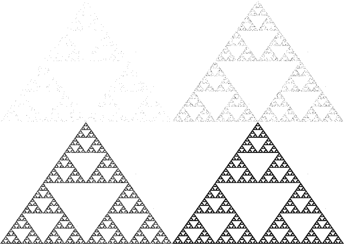 Sierpiński triangle made as an IFS with 500, 5000, 50000 and 500000 dots (using Visual Basic for programming and Adobe Photoshop for saving as GIF)